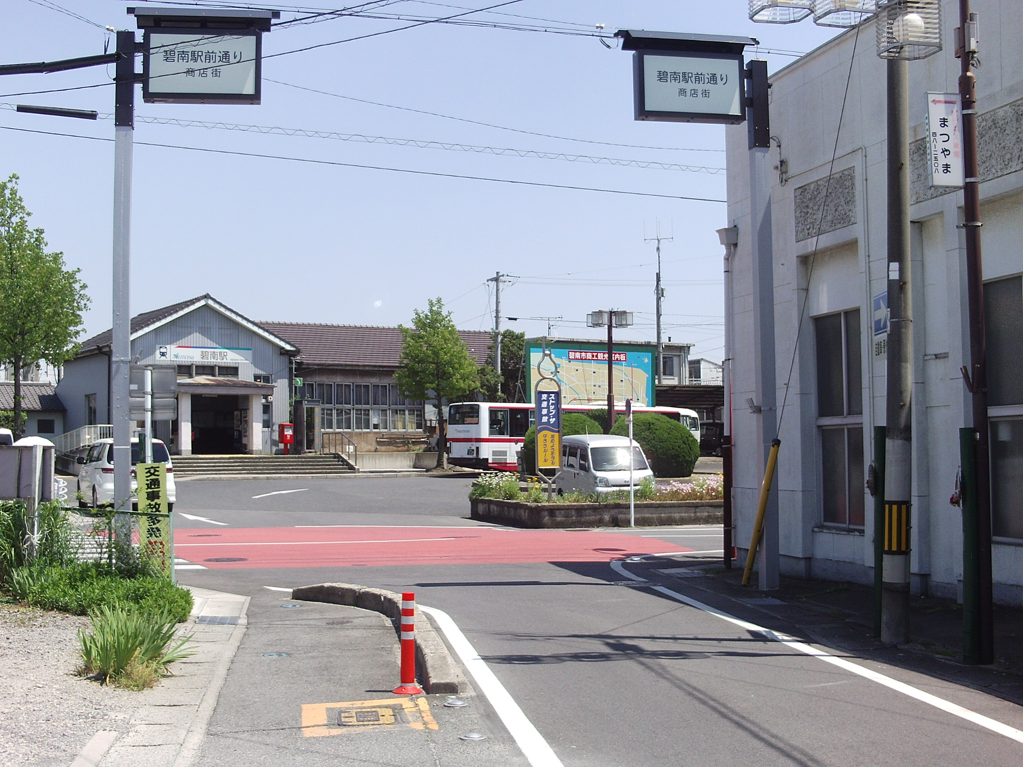 Aichi prefectural road No.305 in Nakamachi 2-chome, Hekinan, Aichi.